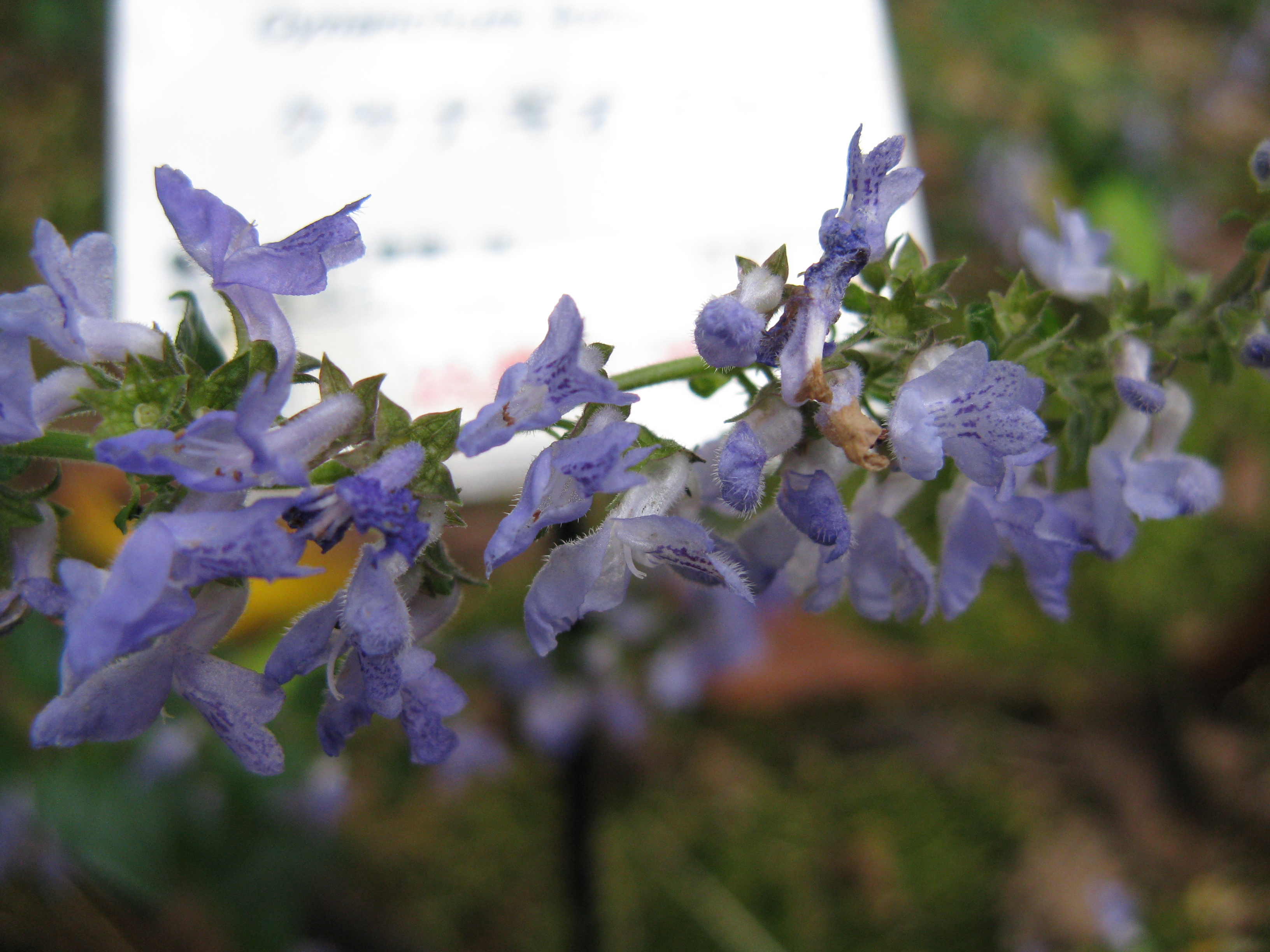 Isodon inflexus